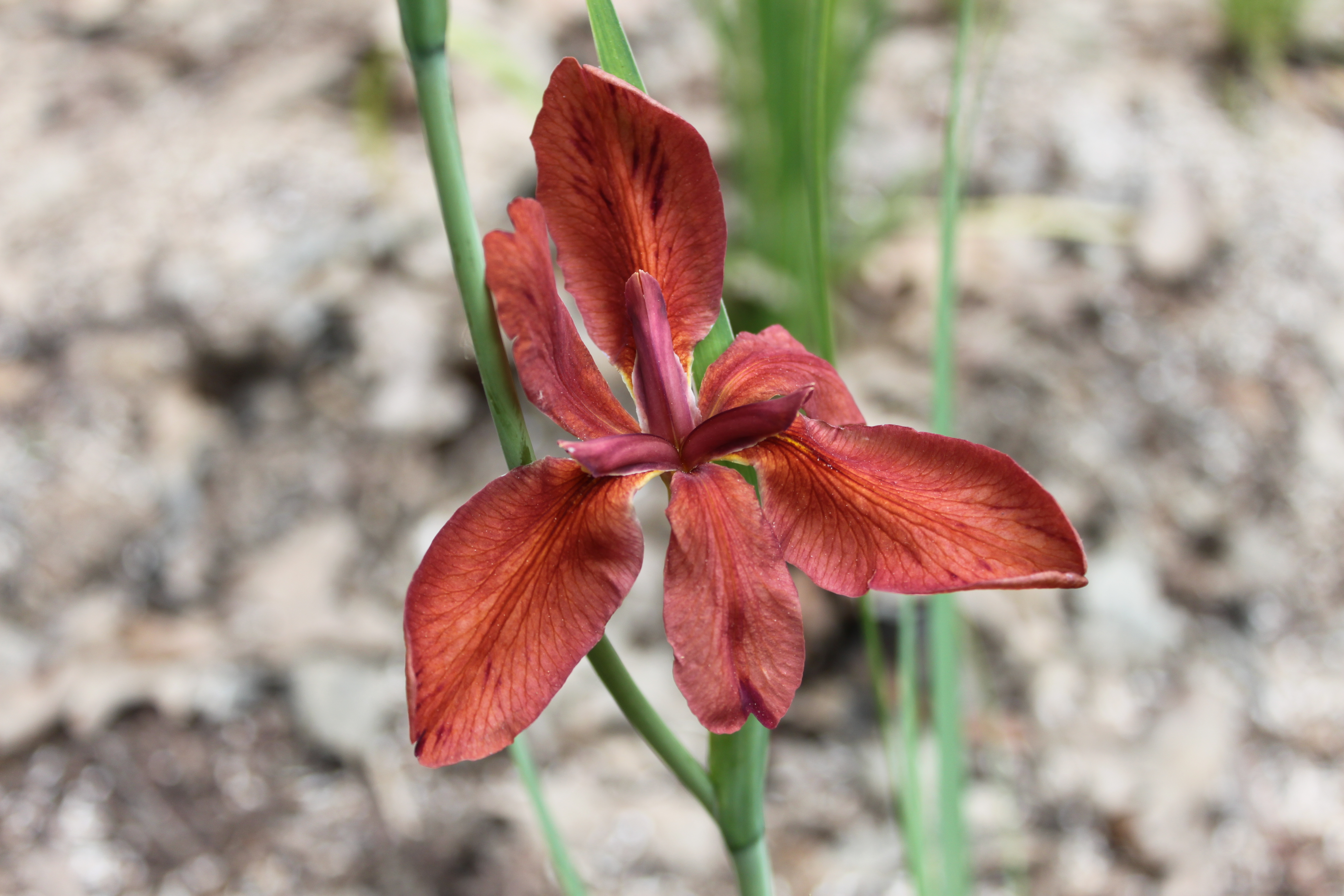 this is an iris fulva in caddo parish, la flowering for the first time.